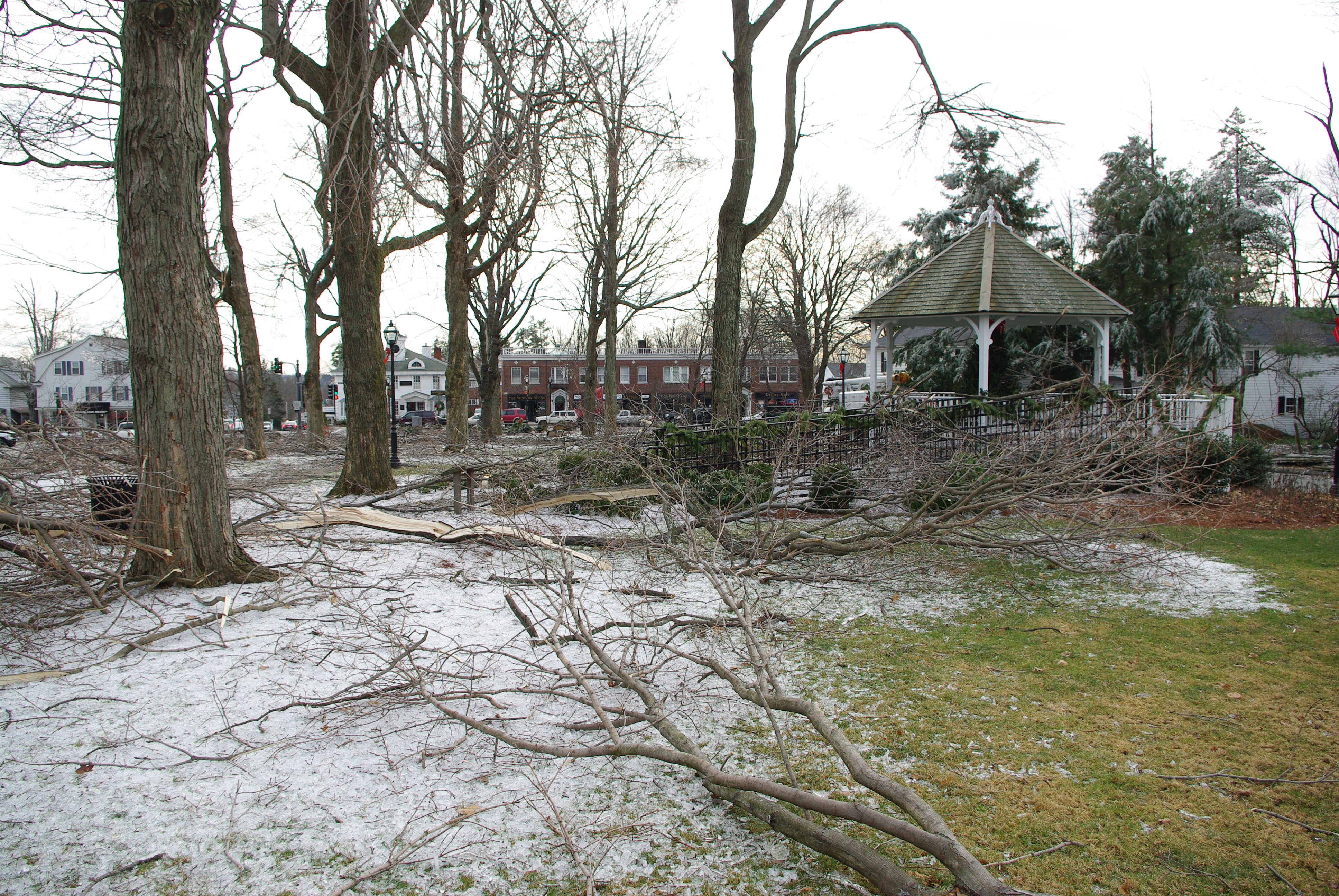 Damage from the ice storm of 12/12/2008.